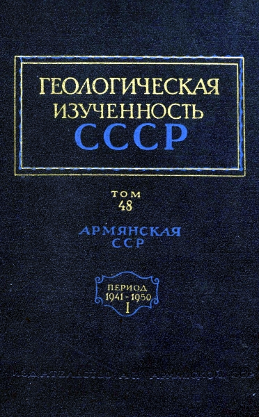 Geological exploration of the USSR (1961-1991).